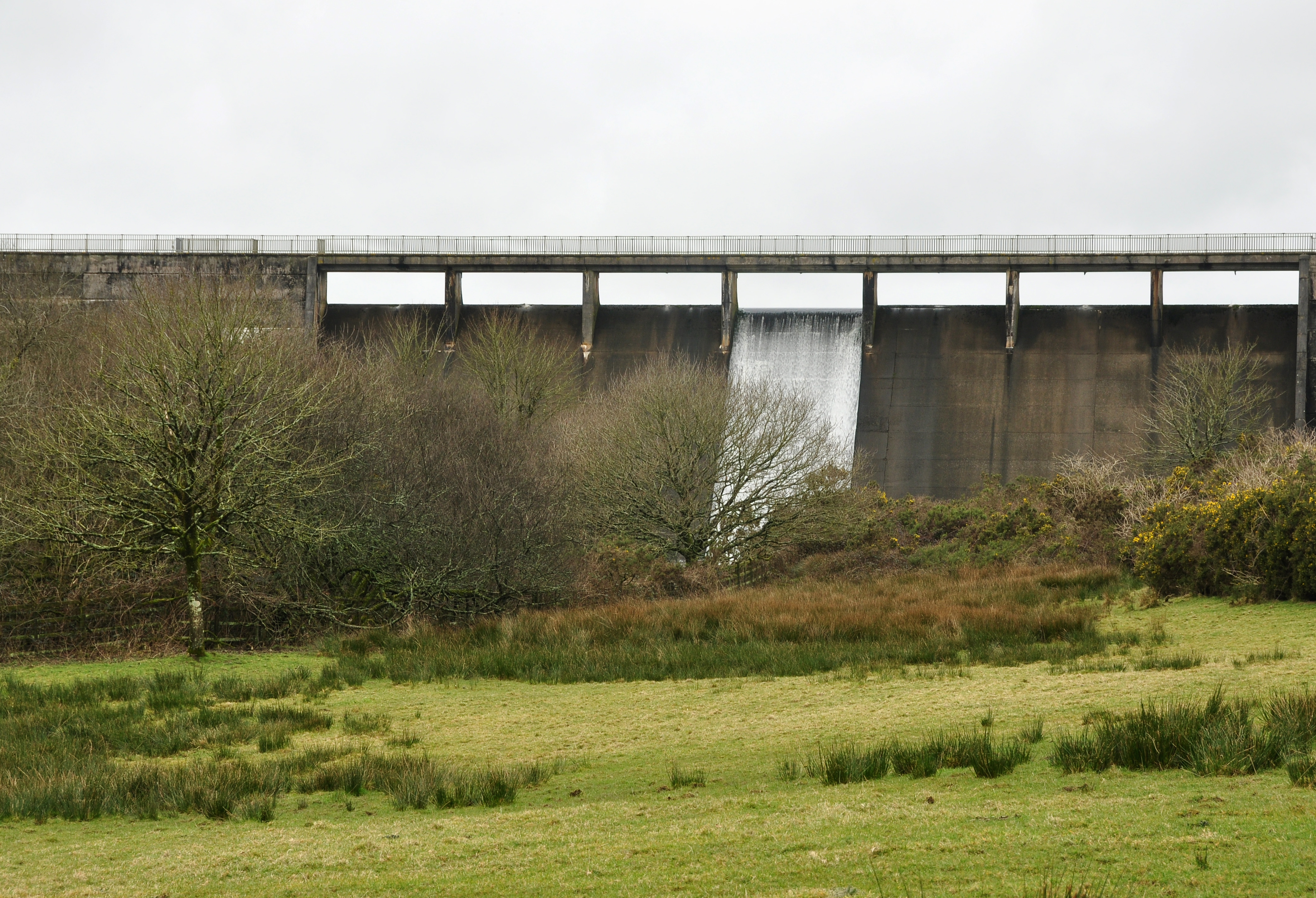 The Upper Tamar Lake dam, on the Devon/Cornwall border near Alfardisworthy.